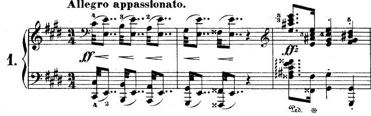 Polonaise in C sharp minor, Op. 26 No. 1 - F. Chopin